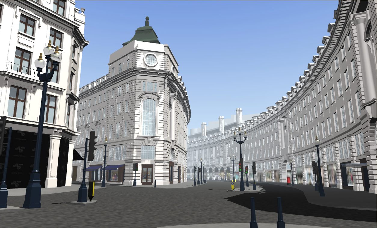 Screenshot from our NearLondon software.